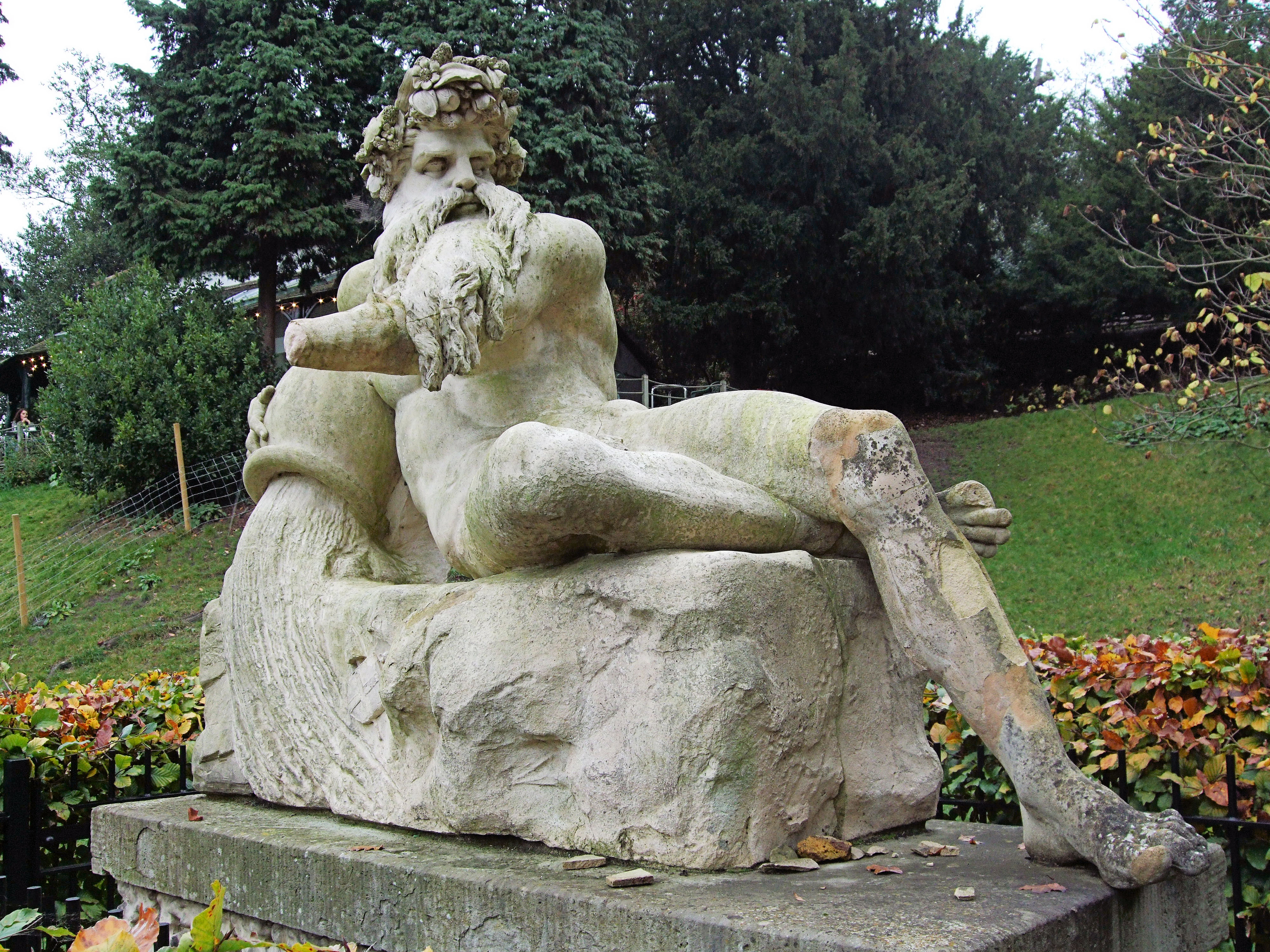 Statue made of Coade stone by the sculptor John Bacon (1740-99).